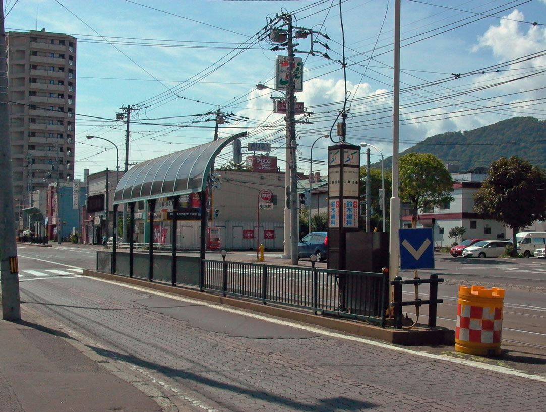 Yamahana Jukujo station Sapporo, Hokkaido, Japan